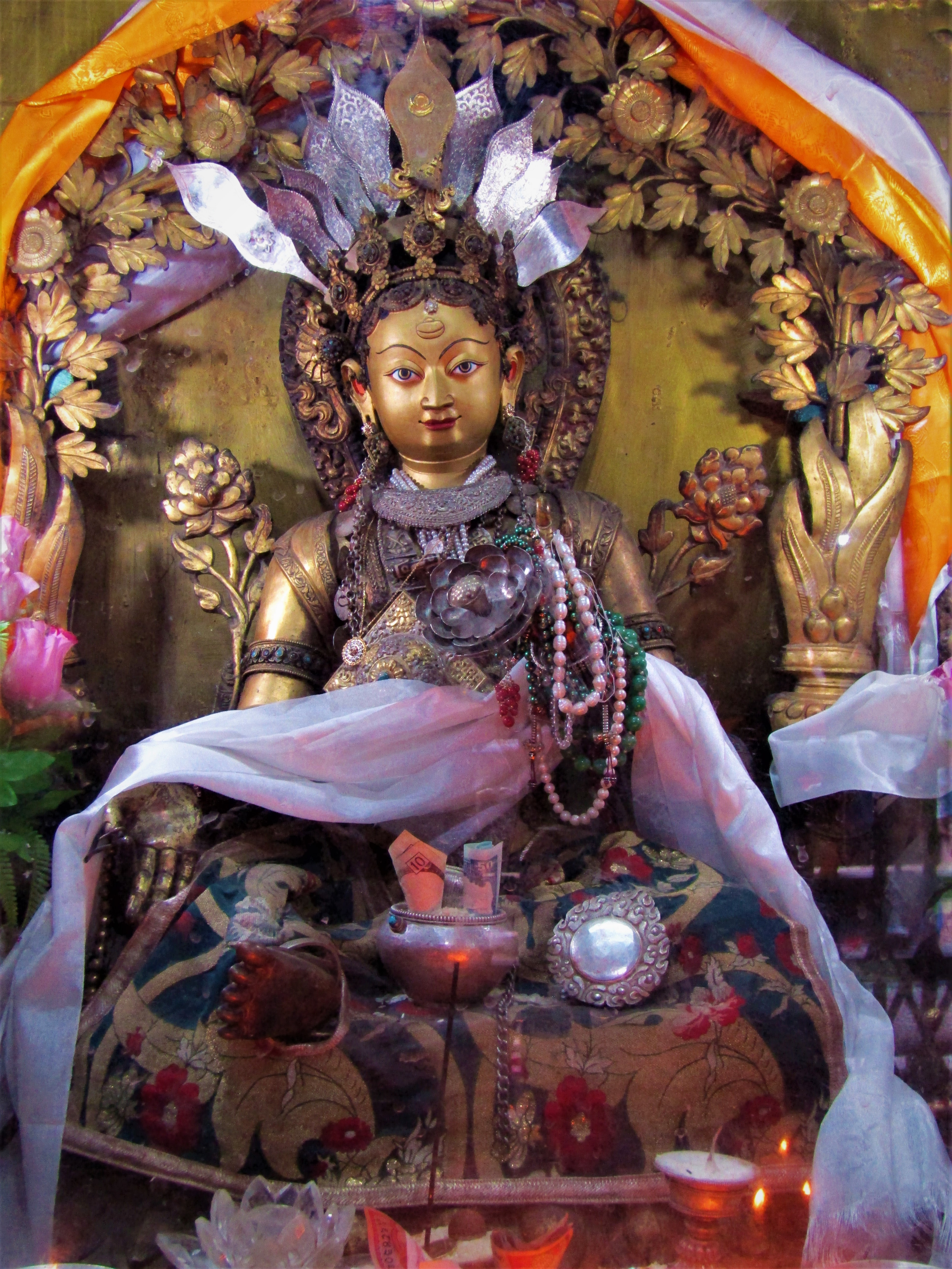 The Licchavi Princess Bhrikuti Devi in Golden Temple, Patan